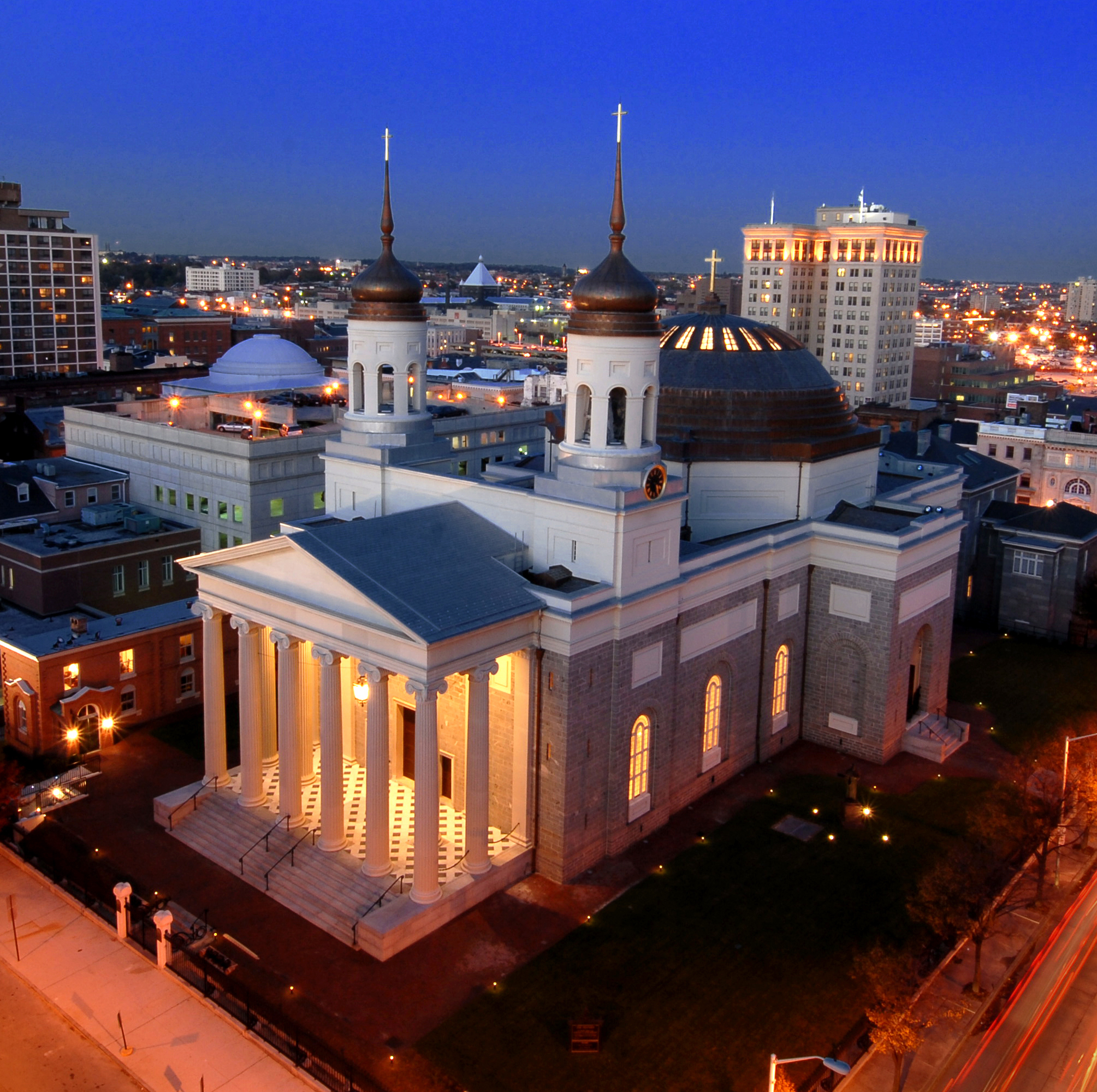 The Basilica of the National Shrine of the Assumption of the Blessed Virgin Mary, by night.